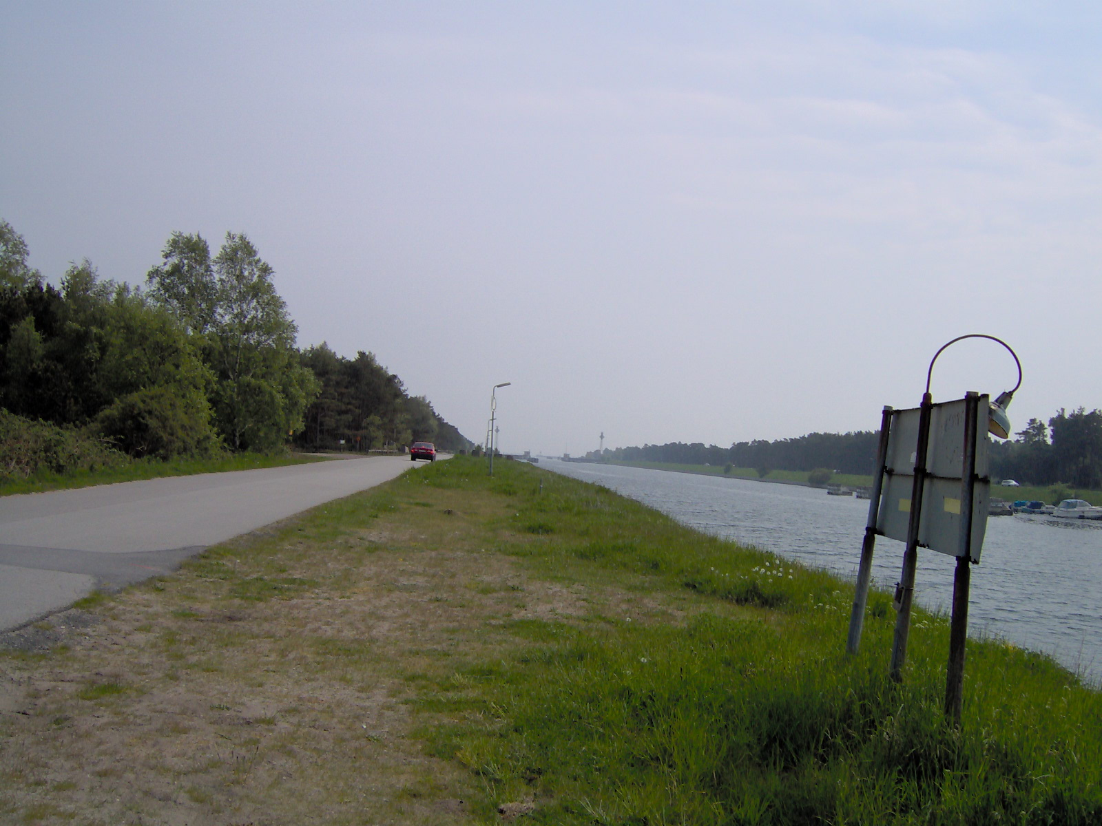 Falsterbo canal Source: taken by self may 22nd 2005